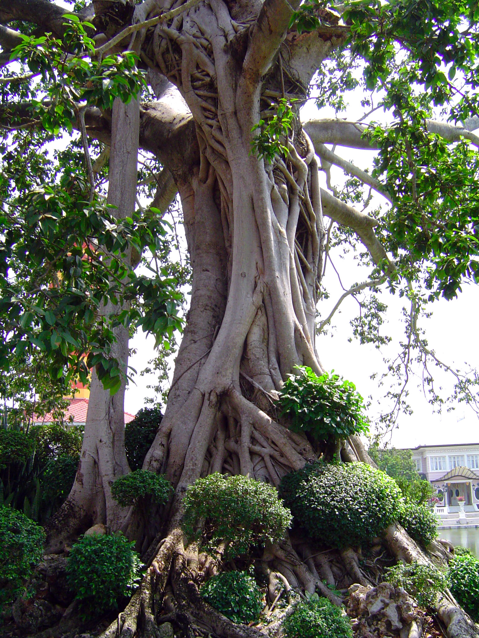 Unidentified Ficus in Bang Pa In : Phra Nakhon Si Ayutthaya